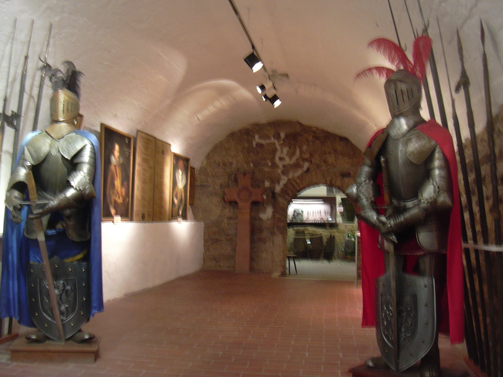 Rüdesheim Brömser Castle, entrance part to museum